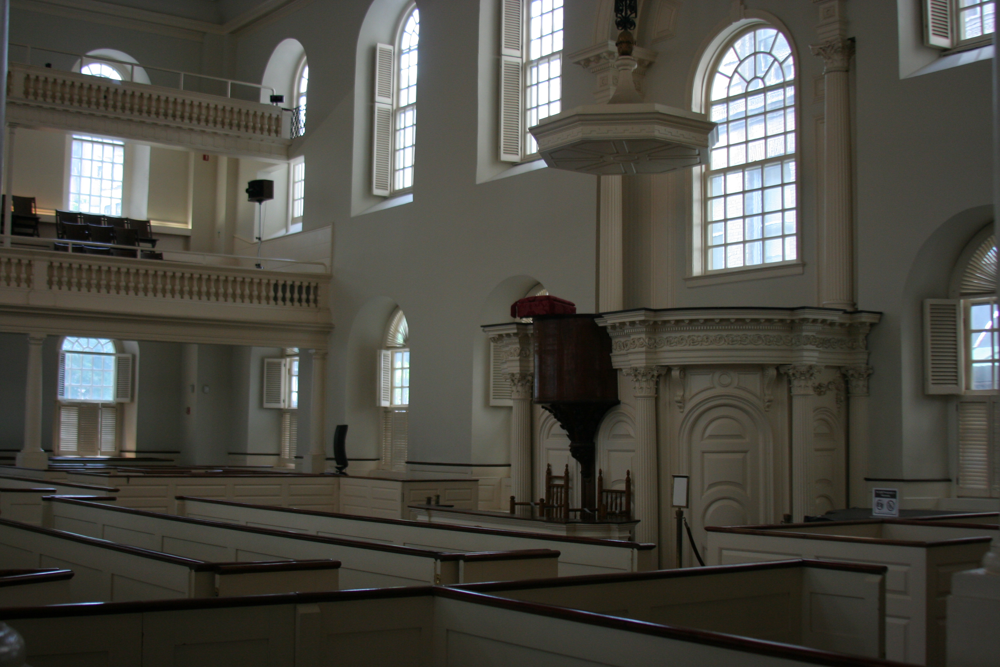 Old South Meeting House